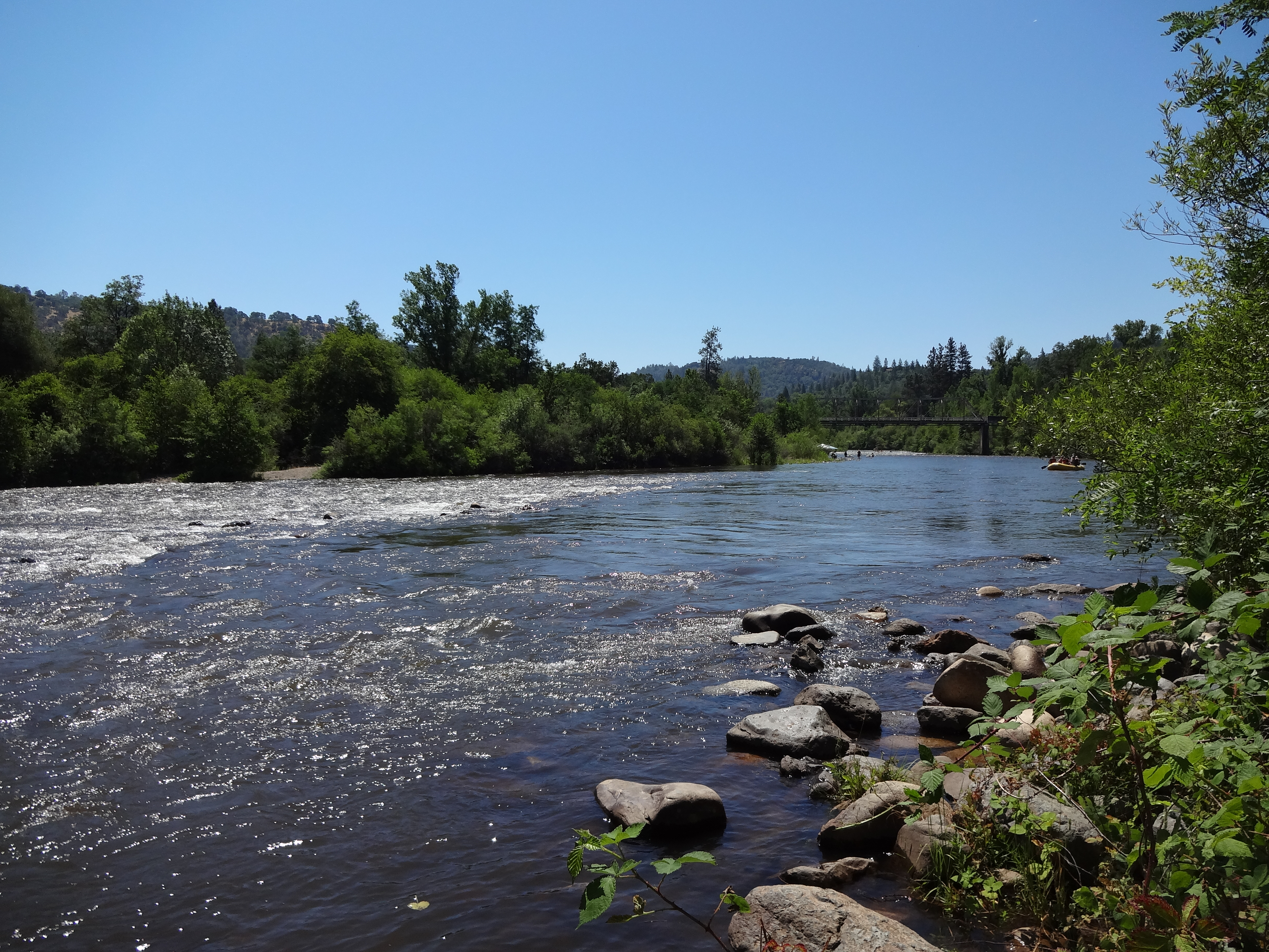 South Fork of the American River at Sutter's Mill, Coloma, California, looking upriver